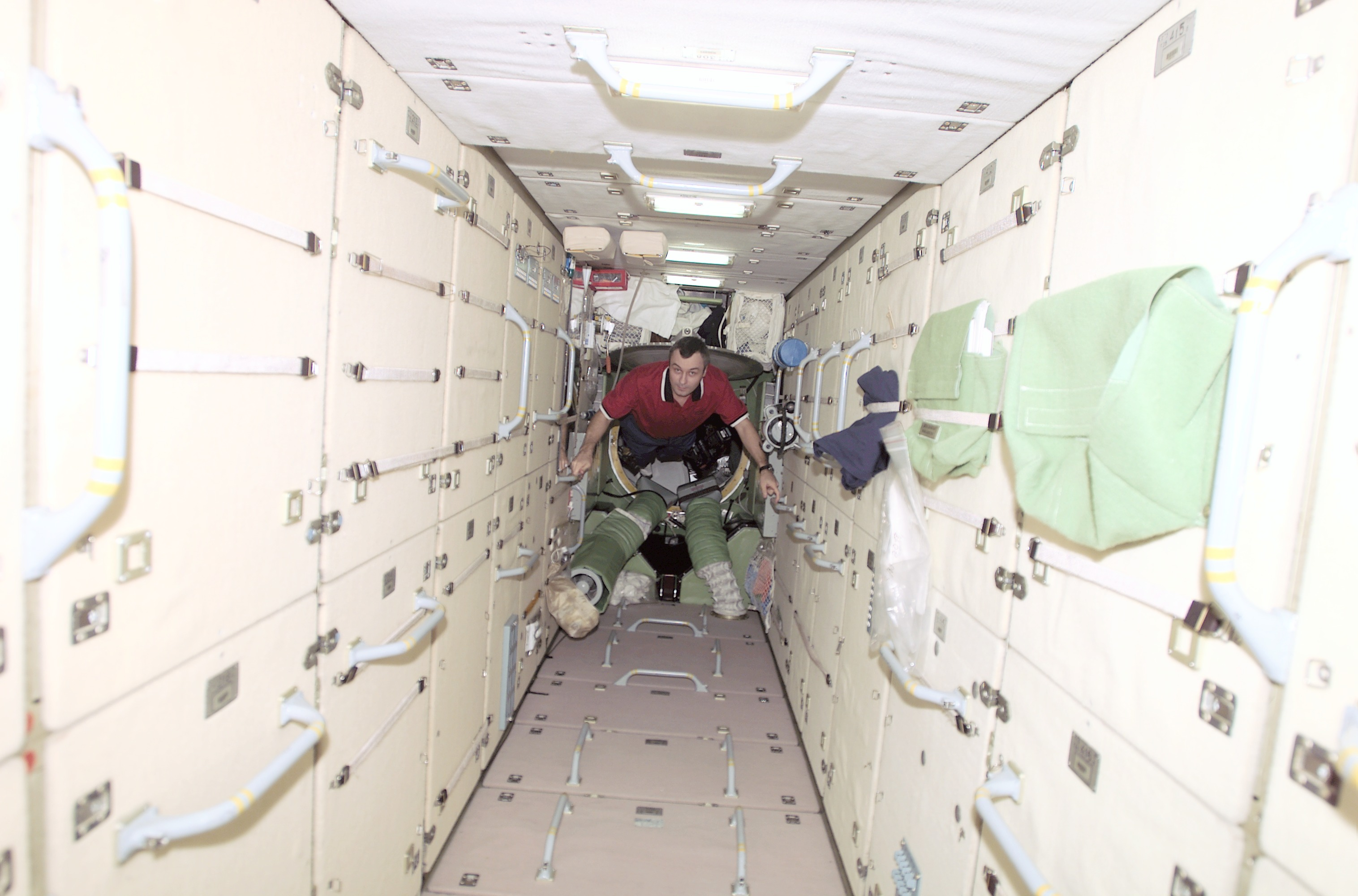 Interior of Zarya ISS module (NASA) original description: Cosmonaut Vladimir N. Dezhurov, Expedition Three flight engineer, translates through the Zarya module or Functional Cargo Block (FGB) during one of his last days onboard the International Space Station (ISS). The image was recorded with a digital still camera (7 December 2001).